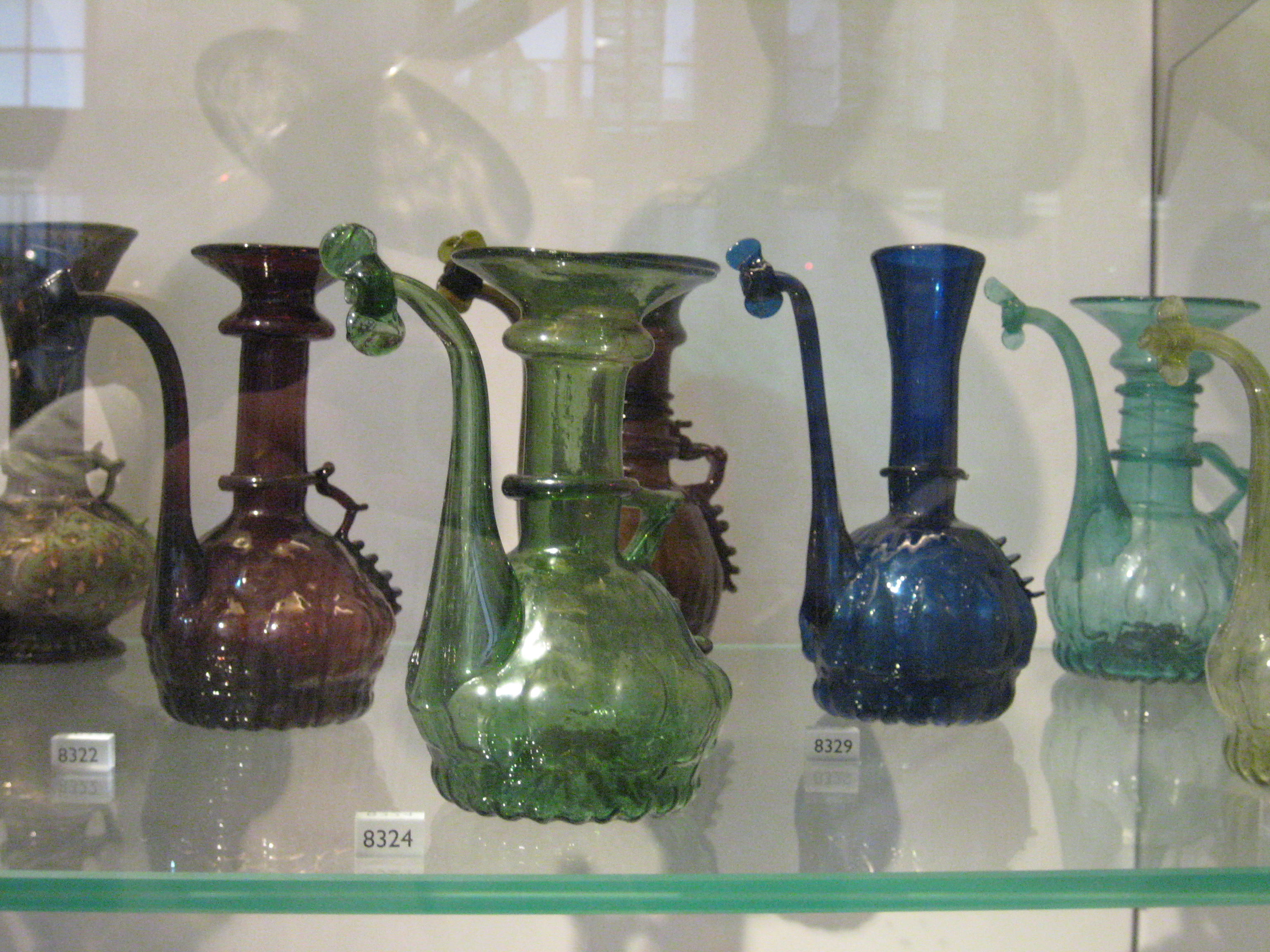 Some mould-blown, some with cold-painted decoration, Persia; 19th century. These ewers were probably intended for a variety of uses, from serving drink to sprinkling perfumes. Collection ID: 889-1889 This photo was taken as part of Britain Loves Wikipedia in February 2010 by Alison Bean.